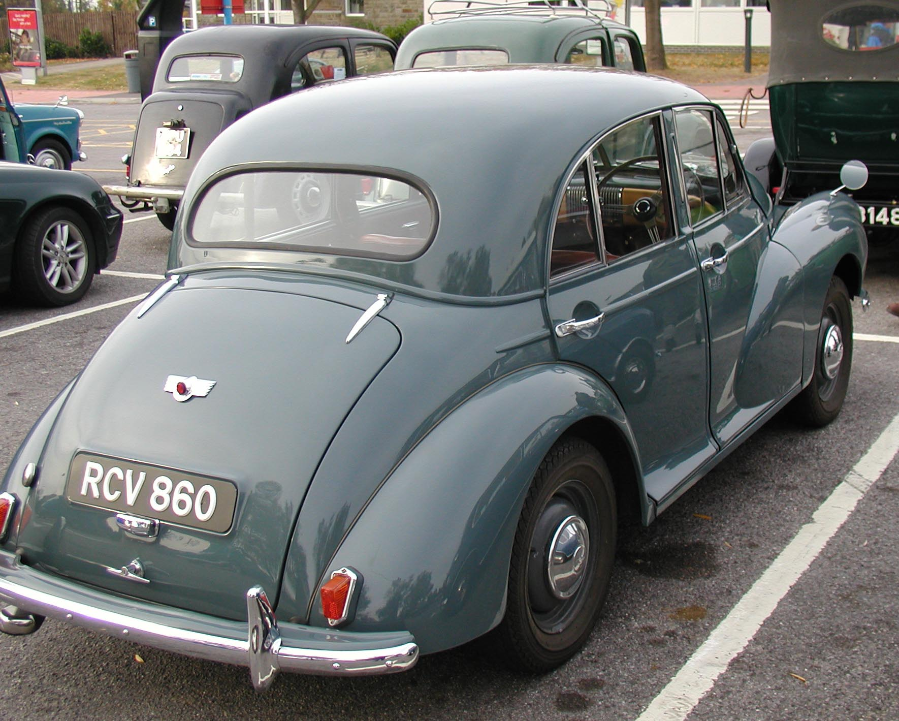 1953 Morris Minor Series 2 at The Great West Road Run, Aust, Bristol, England. Taken by Adrian Pingstone in October 2003 and released to the public domain.